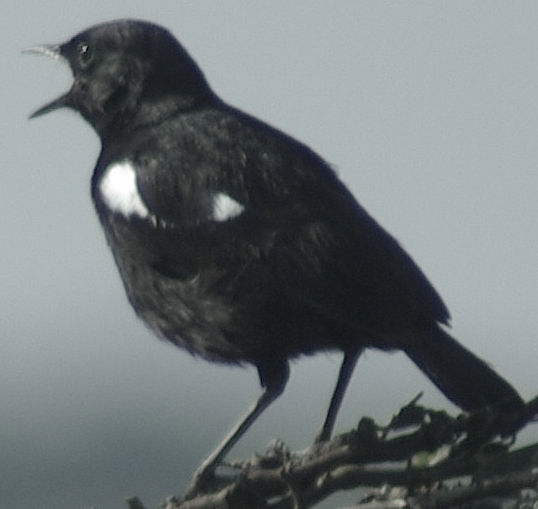 Sooty Chat, Myrmecocichla nigra, Masai Mara National Reserve, Kenya. The time stamp is 10 hours too early. Sorry, I misspelled the genus name in the file name. I'll happily correct that if it's a problem.